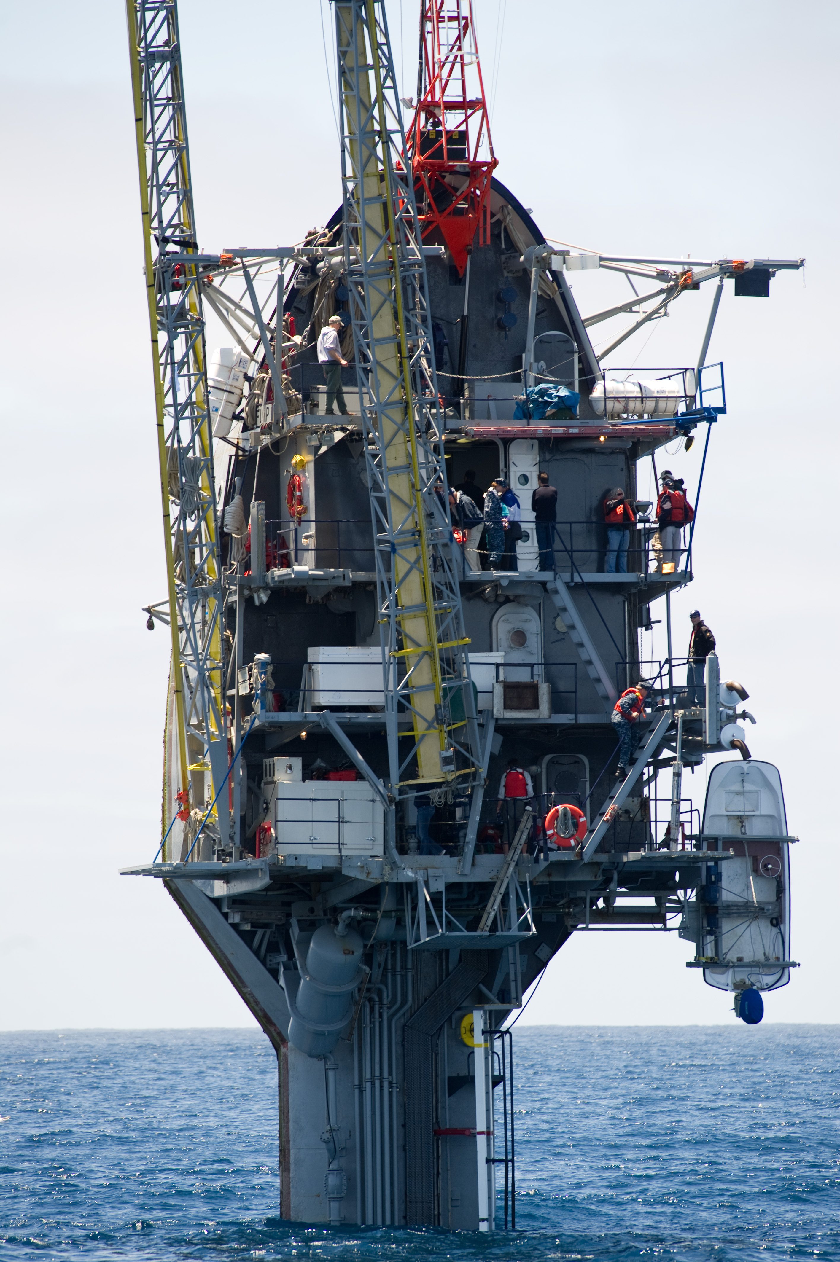 55 feet remain visible after the crew of the Floating Instrument Platform, or FLIP, partially flood the ballast tanks causing the vessel to turn stern first into the ocean. The 355-foot research vessel, owned by the Office of Naval Research and operated by the Marine Physical Laboratory at Scripps Institution of Oceanography at University of California, conducts investigations in a number of fields, including acoustics, oceanography, meteorology and marine mammal observation.